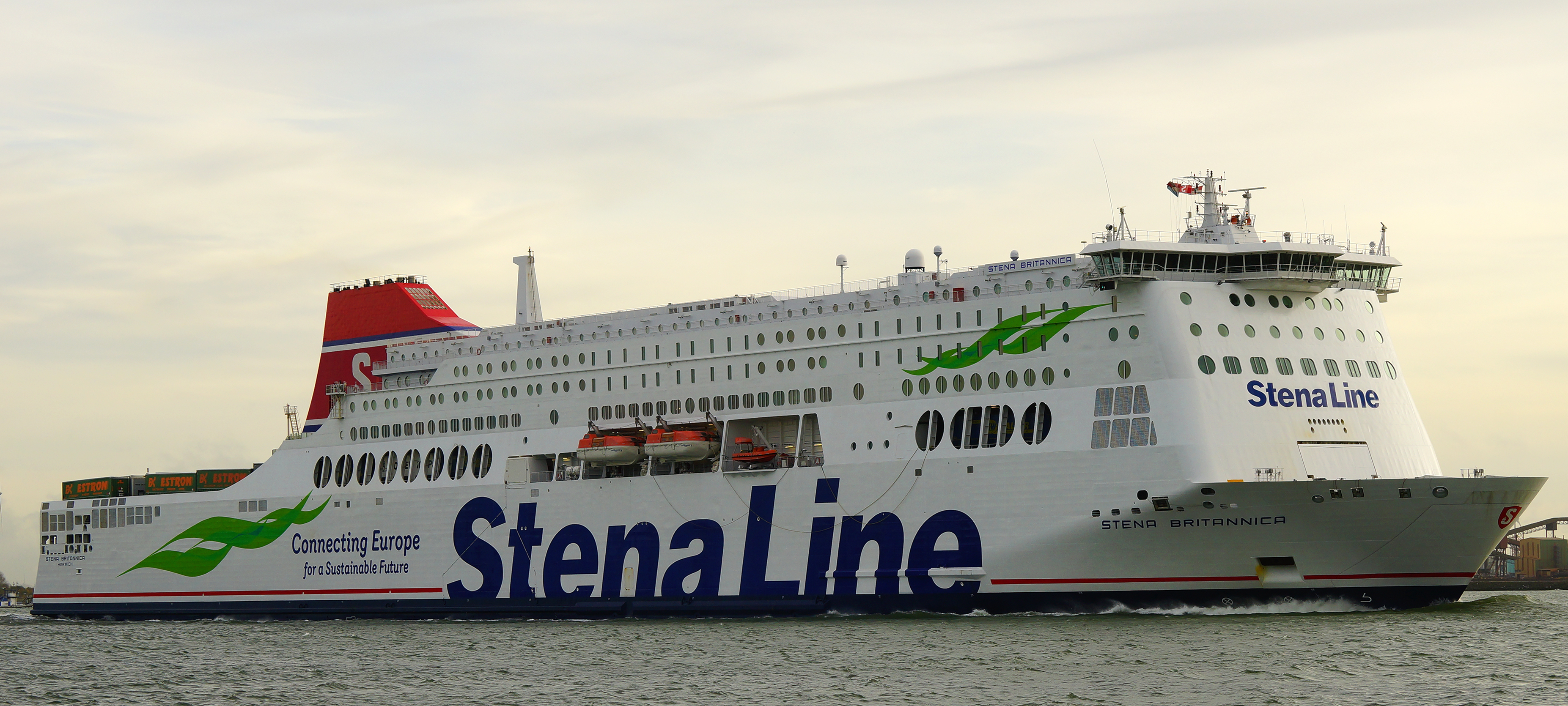 Stena Britannica IMO Number: 9419175 MMSI Number: 235080274 Callsign: 2DMO6 Length: 240 m Beam: 32 m